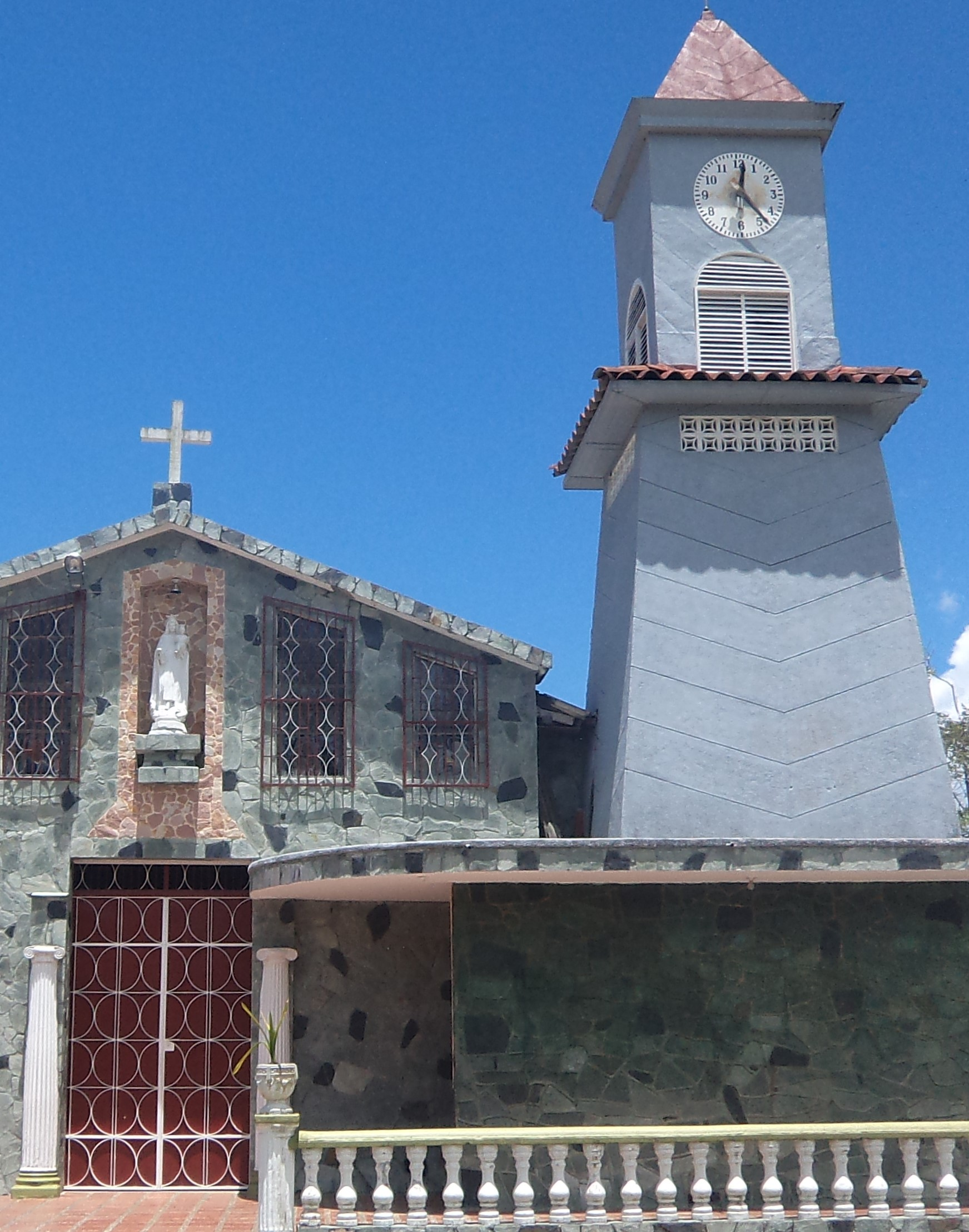 Templo San Cayetano